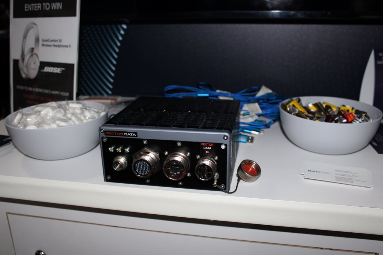 rugged, compact data storage appliance from Vector Data with ONTAP Select on it